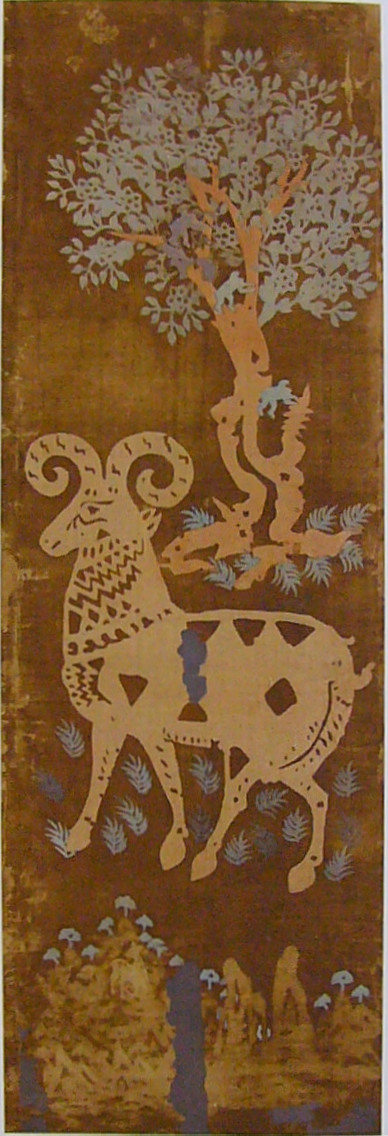 ROCHECHI_Screen_Panel_Shosoin One of SCREEN PANELS WITH DESIGN OF ANIMALS AND BIRDS IN ROKECHI (NORTH44) ROKECHI is a sort of Batik, wax dyeing method ,8th century, Japan, Shosoin Collection, Nara, Japan